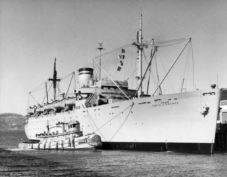 USNS David C. Shanks (T-AP-180) being assisted away from the pier at Fort Mason, San Francisco, CA., by USS Red Cloud (YTB-268), circa 1950s.